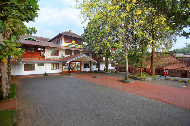 Sreedhareeyam Ayurvedic Eye Hospital and Research Centre is an eye hospital and research facility based in Koothattukulam, Kochi, Kerala in India. It specializes in treating eye diseases and ailments through Ayurveda. The 350-bed hospital is situated in a 55-acre (22 ha) campus. Late Dr N P P Namboothiri is the director and chief physician of Sreedhareeyam.